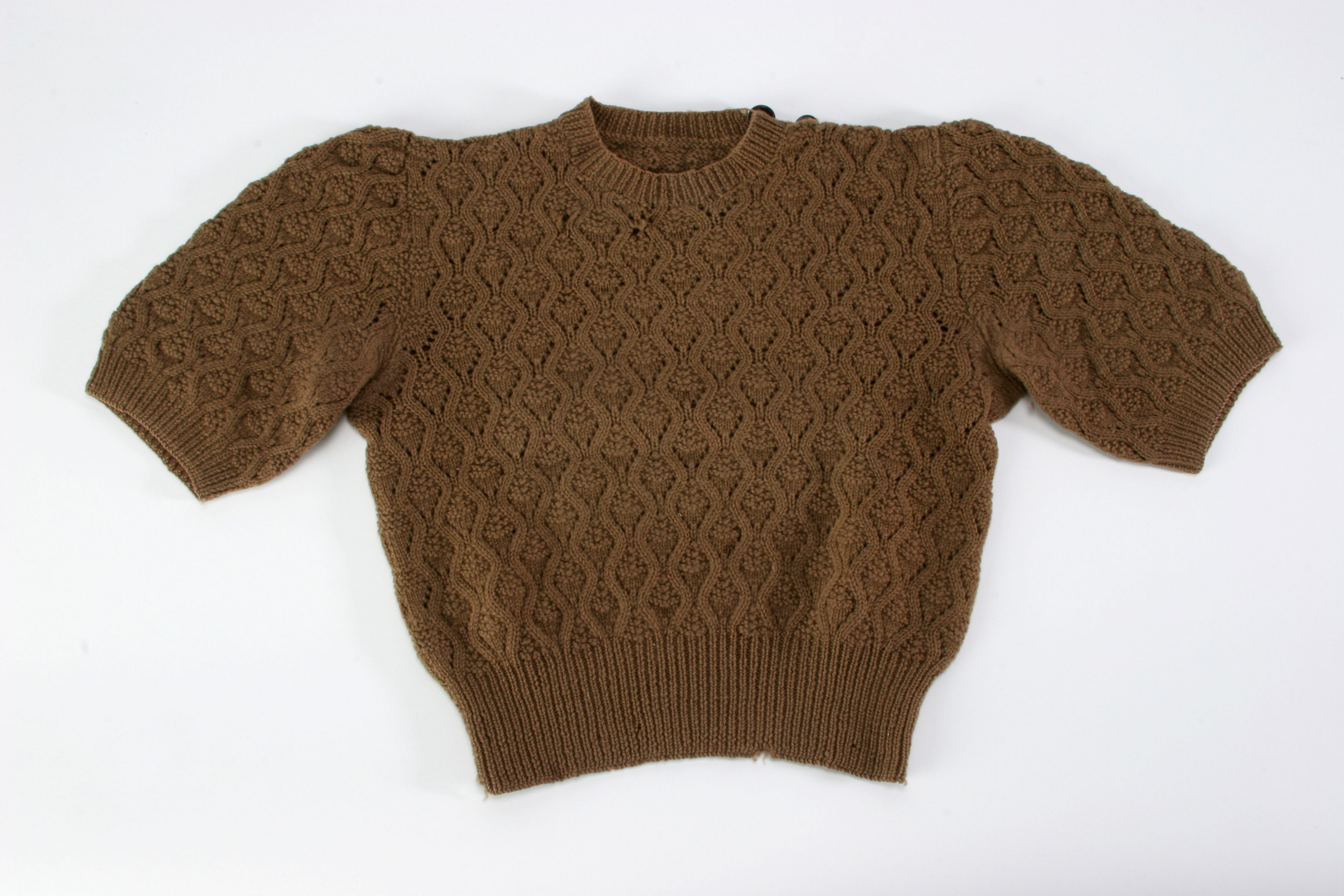 Short sleeved khaki wool jersey Belonged to 8211299 Sgt Nada Florence Priest, New Zealand Women's Auxiliary Army Corps (WAAC) knitted in lacy pattern; brown plastic New Zealand Forces buttons on shoulder.